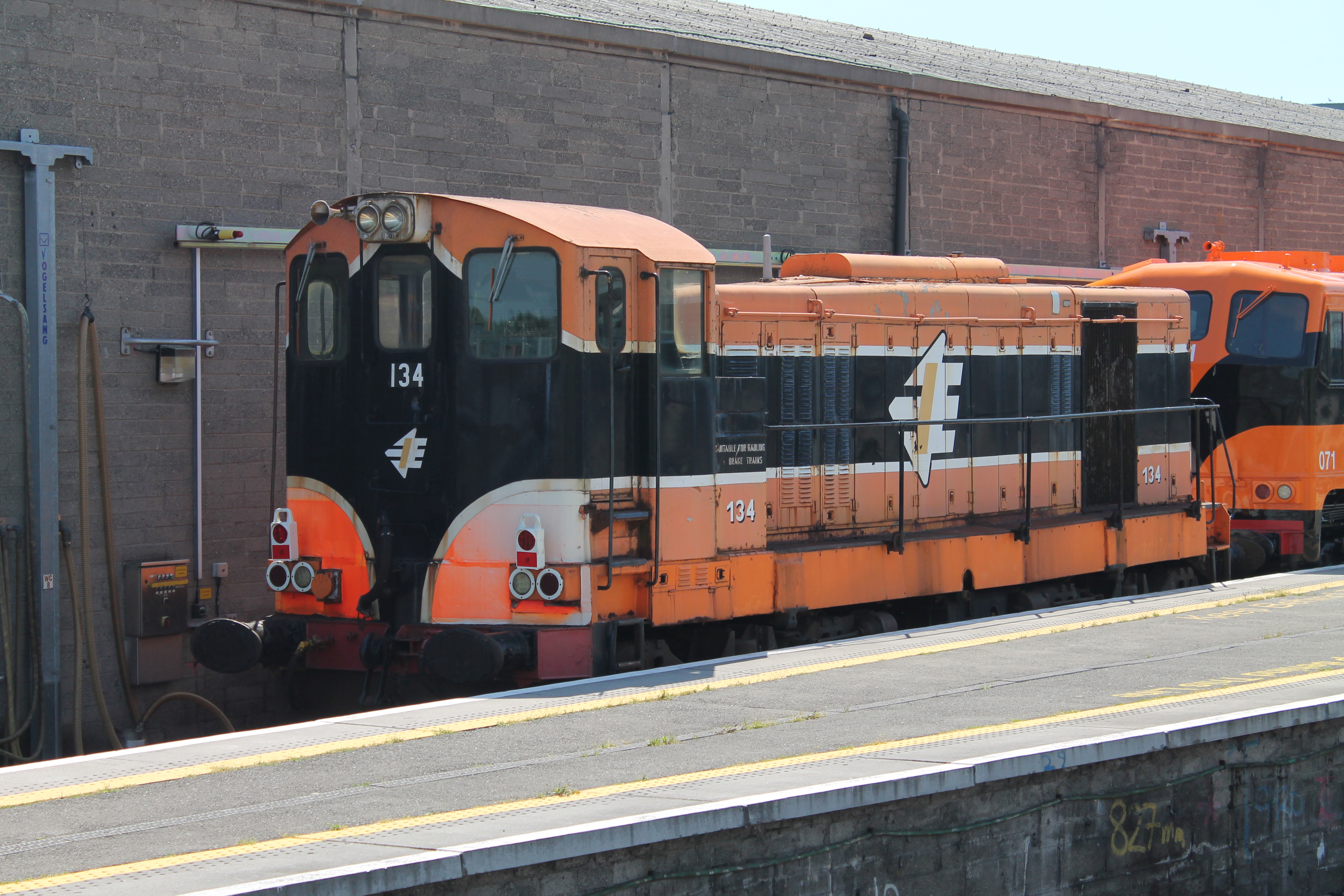 Preserved 121 Class No. 134 at Dublin Connolly. 19/07/2016